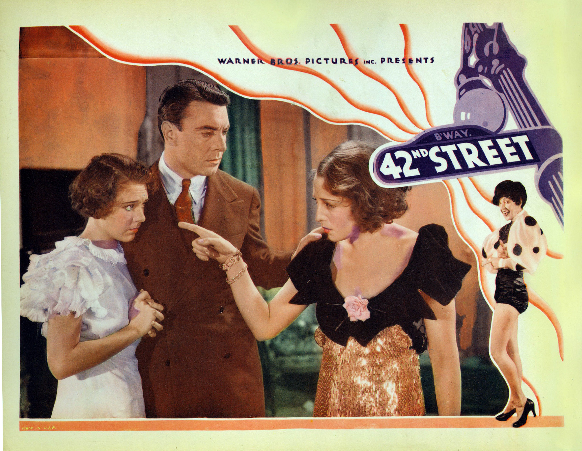 Lobby card from the 1933 film 42nd Street. Pictured are Ruby Keeler, George Brent and Bebe Daniels